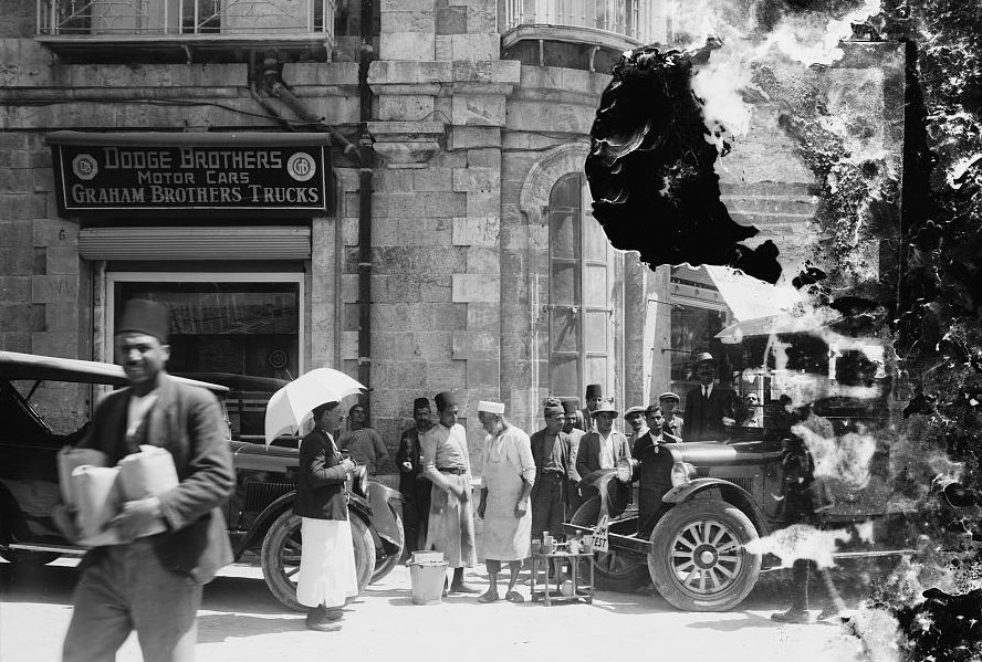 Title: Street scene looking toward store front of Dodge Brothers Motor Cars/Graham Brothers Trucks Abstract/medium: G. Eric and Edith Matson Photograph Collection Physical description: 1 negative